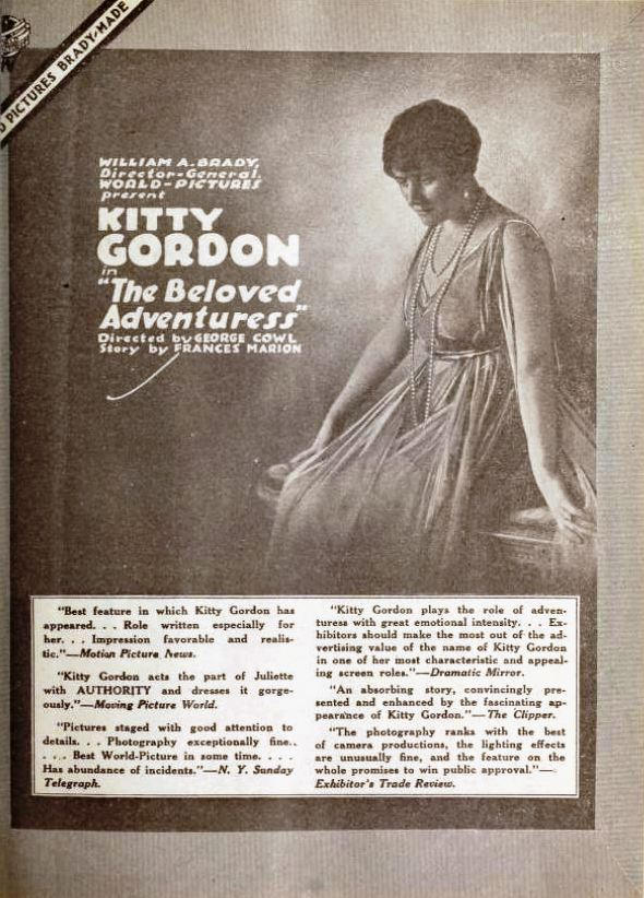 Ad for the American film Beloved Adventuress (1917) with Kitty Gordon, on page 3 of the July 28, 1917 Exhibitors Herald.